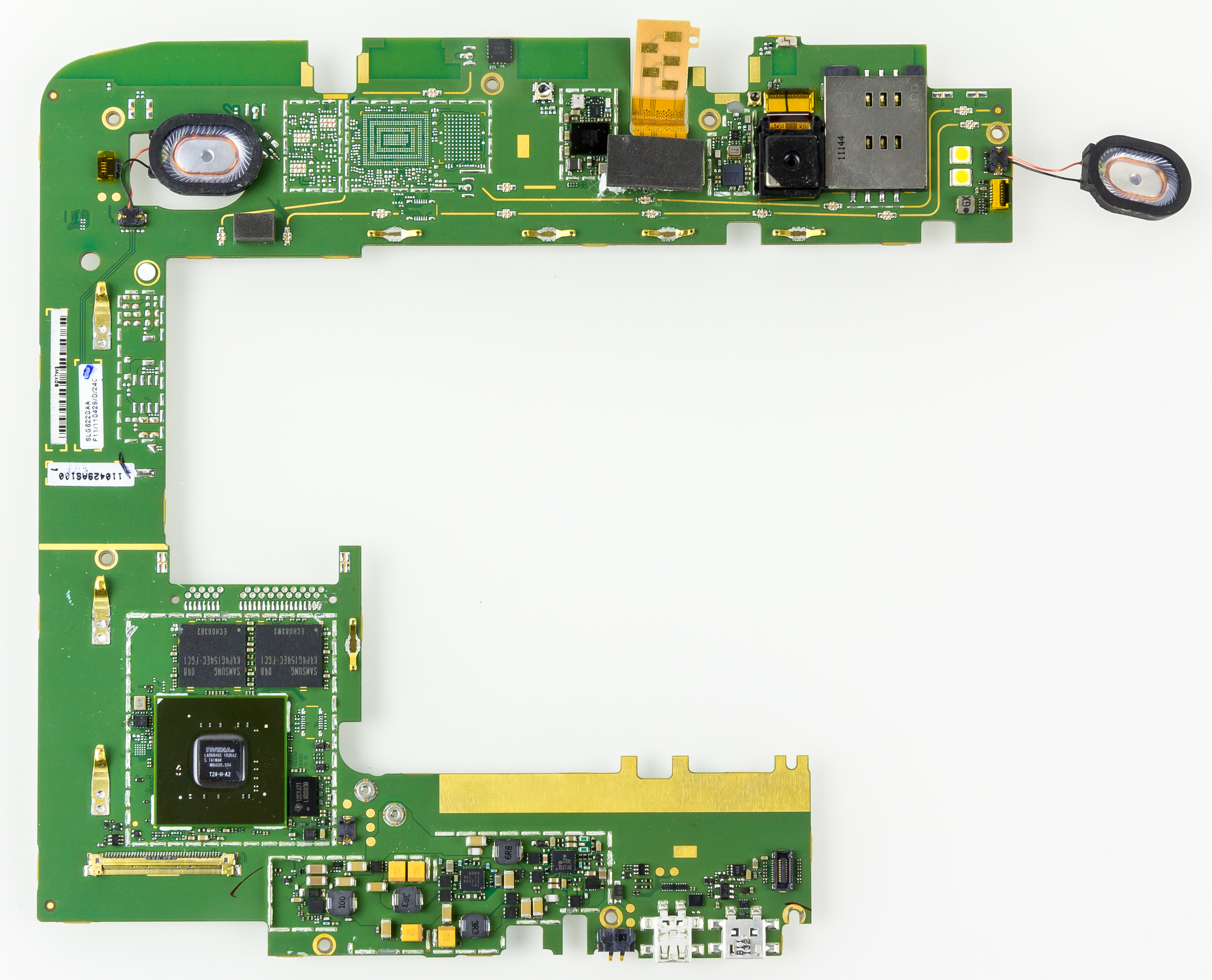 Motorola Xoom - main board